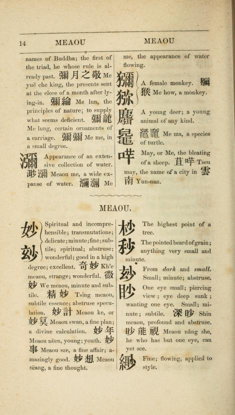 A page from "a dictionary of the Chinese language .." by Robert Morrison, , 1782-1834. The dictionary was originally published in several volumes ca. 1820, reprinted in 1865. This page (Vol 2 of the Second Part; p. 14 in 1865 edition) includes some articles for characters with reading "me" ("mi" in Pinyin) and "meaou" ("miao" in Pinyin)